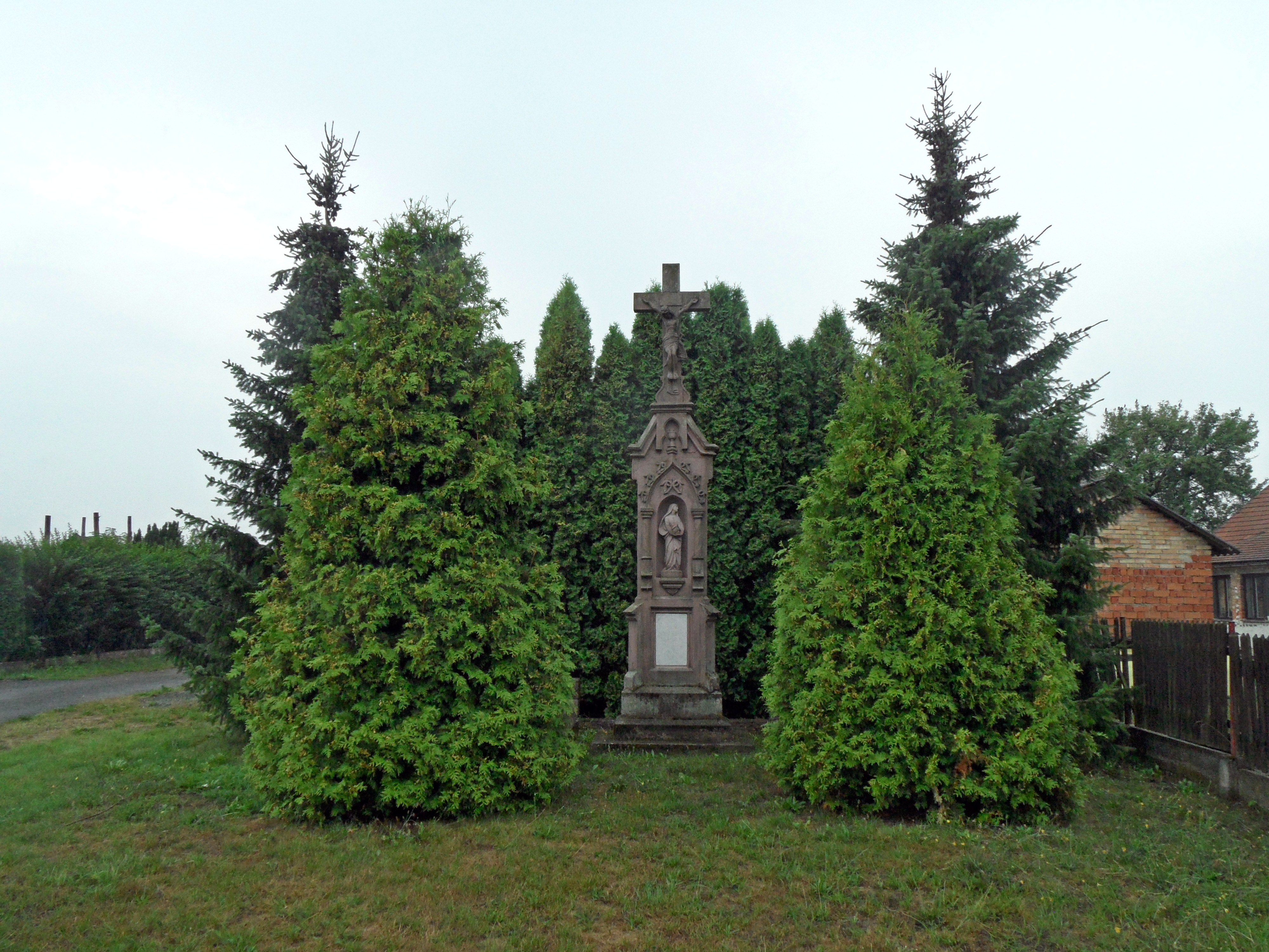 Chvojenec L. Crucifix with Trees Around. Pardubice District, the Czech Republic.